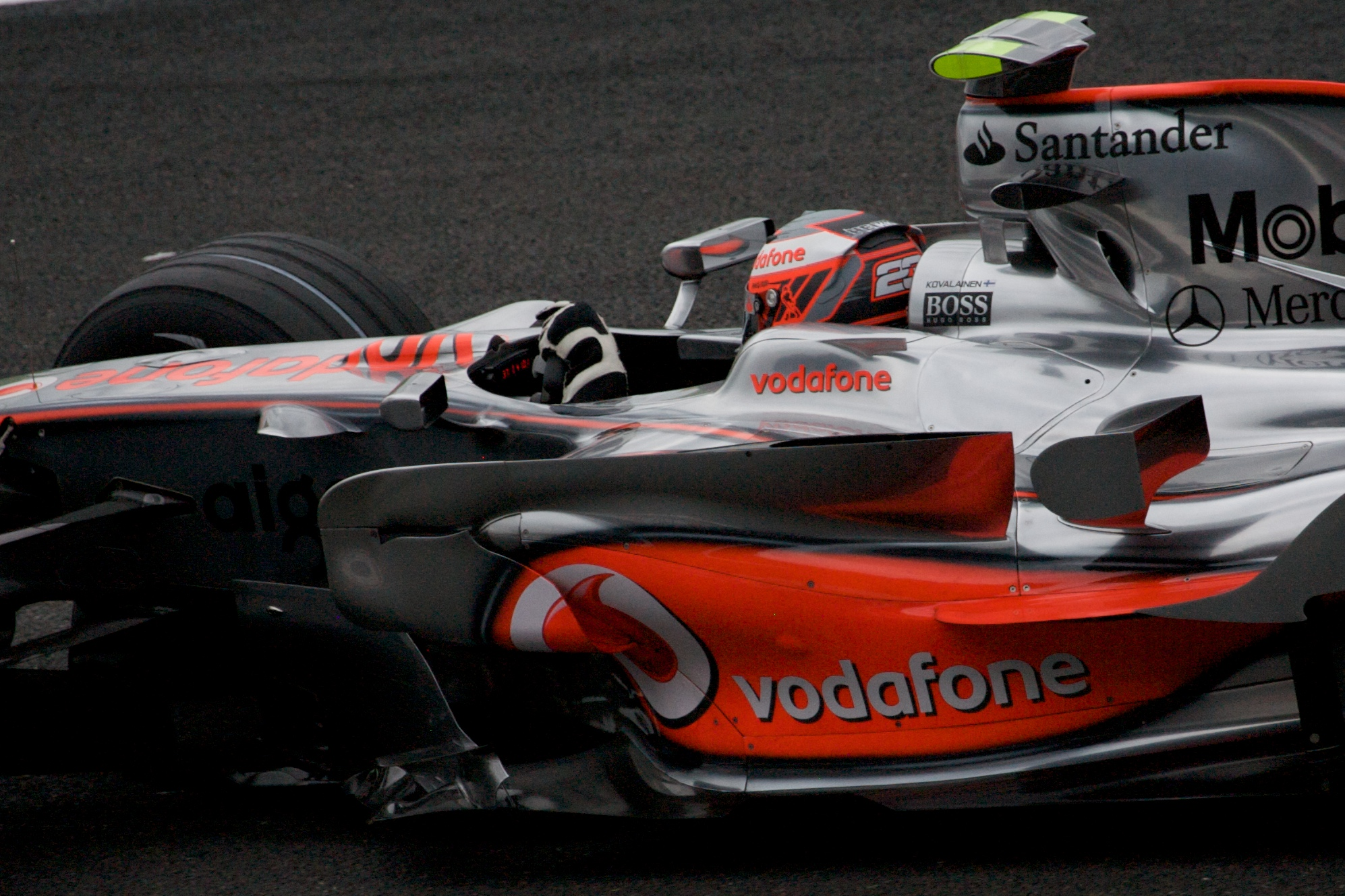 Heikki Kovalainen driving for McLaren at the 2008 Belgian Grand Prix.